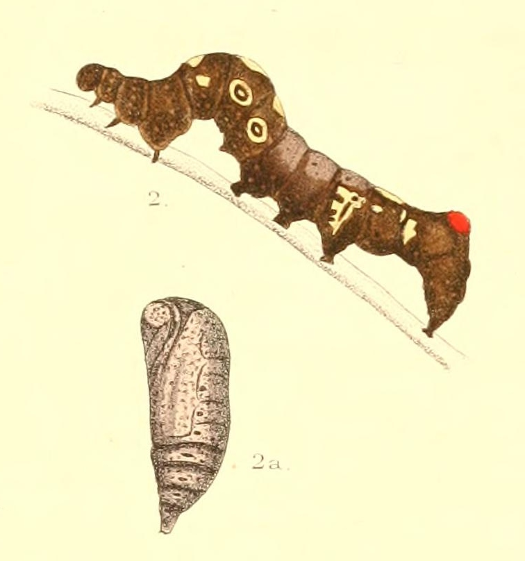 Othreis ancilla larva and pupa (=Eudocima homaena) Moore, Frederic 1880 On the genera and species of the Lepidopterous Subfamily Ophiderinae inhabiting the Indian Region. Zoological Society of London